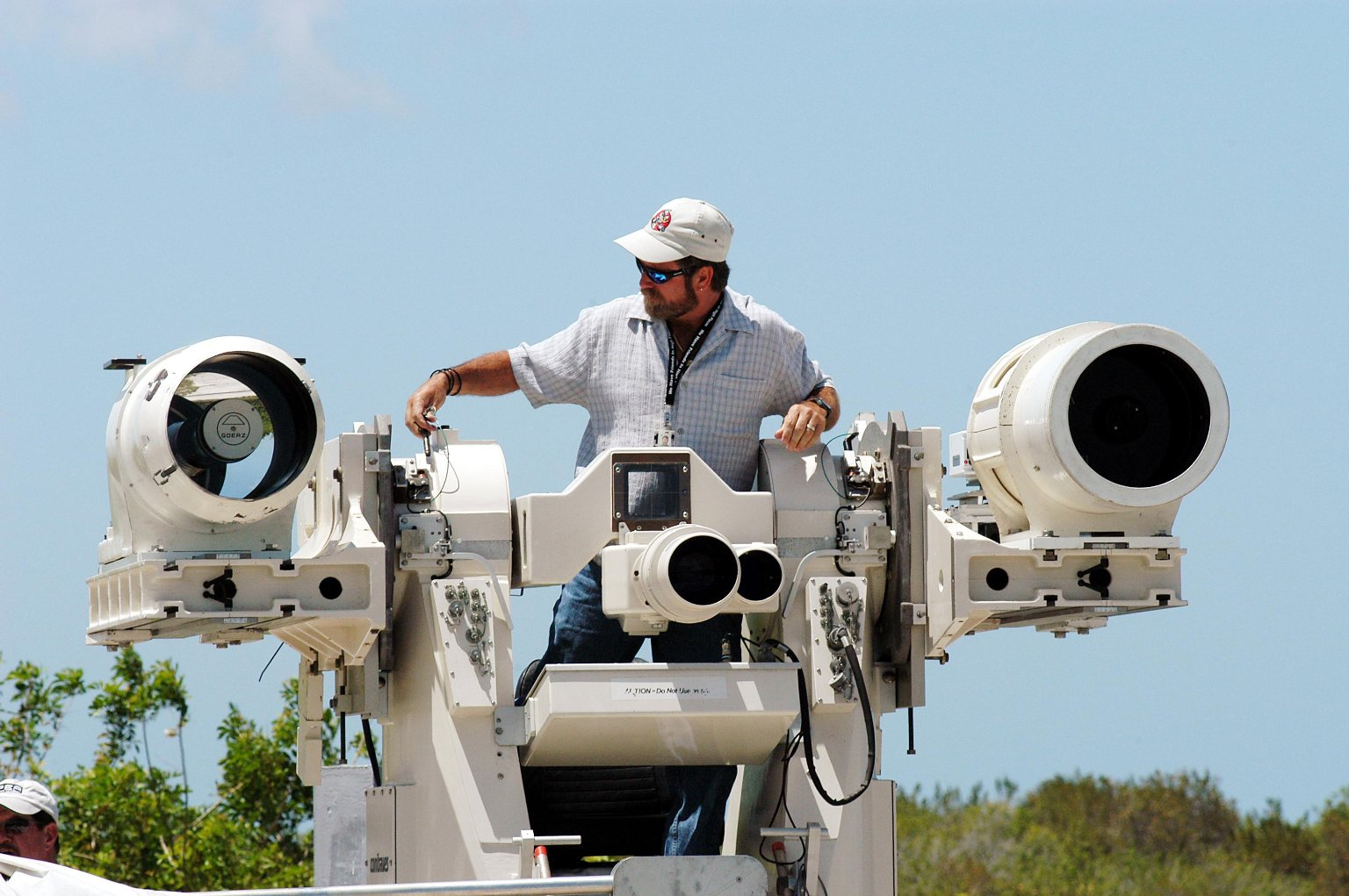 KENNEDY SPACE CENTER, FLA. -- Johnson Controls operator Kenny Allen works on the recently acquired Contraves-Goerz Kineto Tracking Mount (KTM). Trailer-mounted with a center console/seat and electric drive tracking mount, the KTM includes a two-camera, camera control unit that will be used during launches. The KTM is designed for remotely controlled operations and offers a combination of film, shuttered and high-speed digital video, and FLIR cameras configured with 20-inch to 150-inch focal length lenses. The KTMs are generally placed in the field and checked out the day before a launch and manned 3 hours prior to liftoff. There are 10 KTMs certified for use on the Eastern Range.